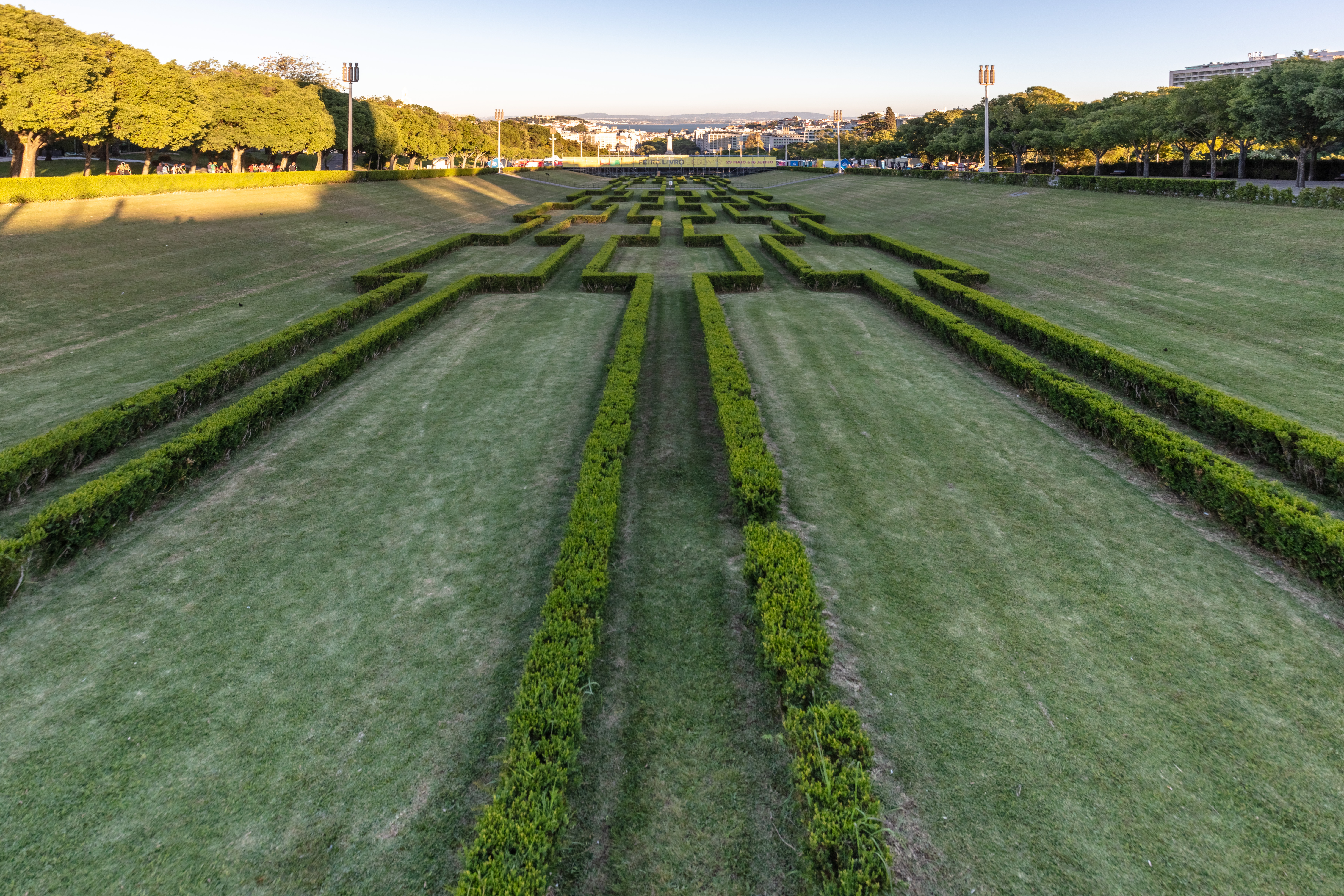 Eduardo VII Park, Lisbon, Portugal